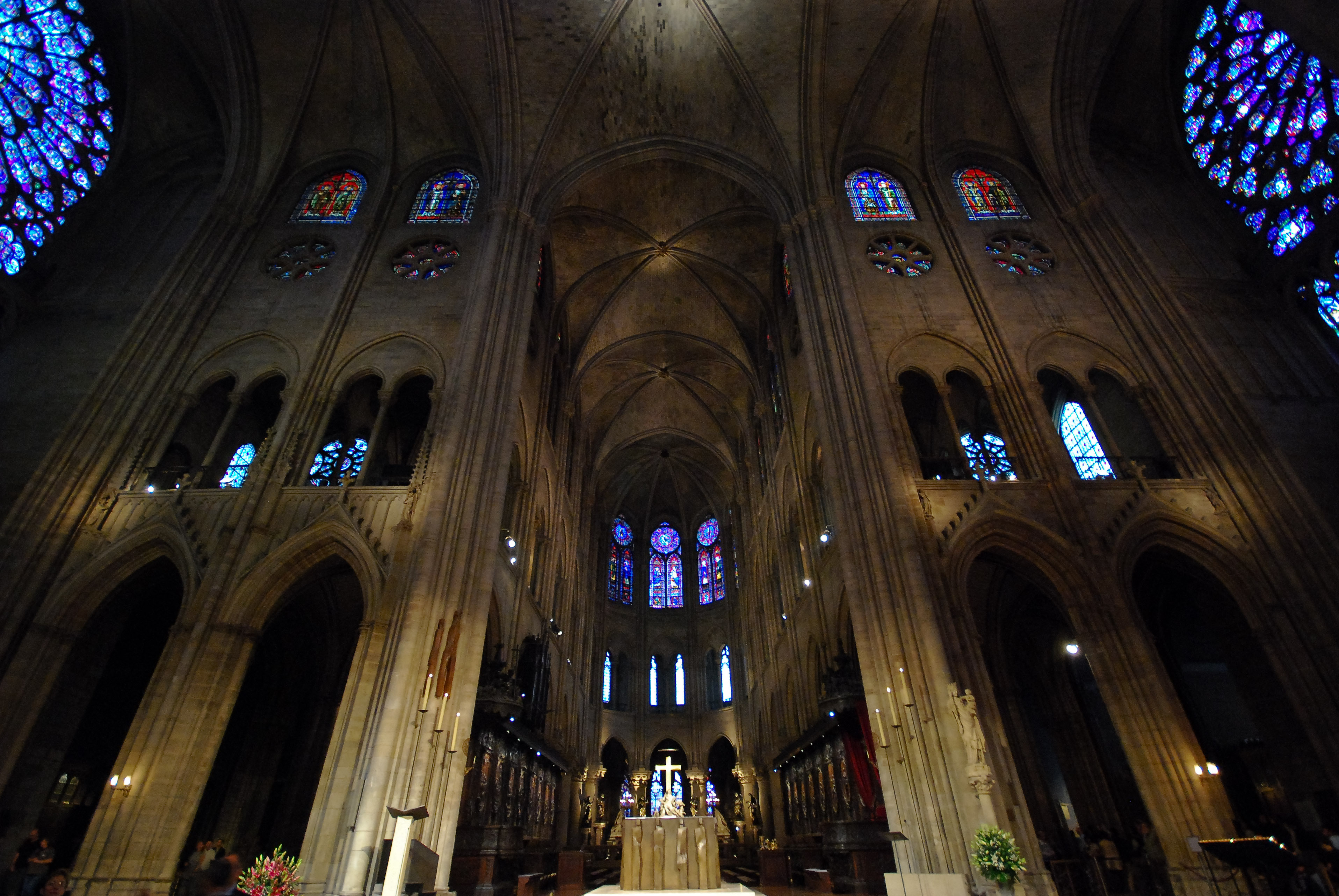 I like how wide this shot is -- you can see both side walls of the cross-shaped interior of the church.